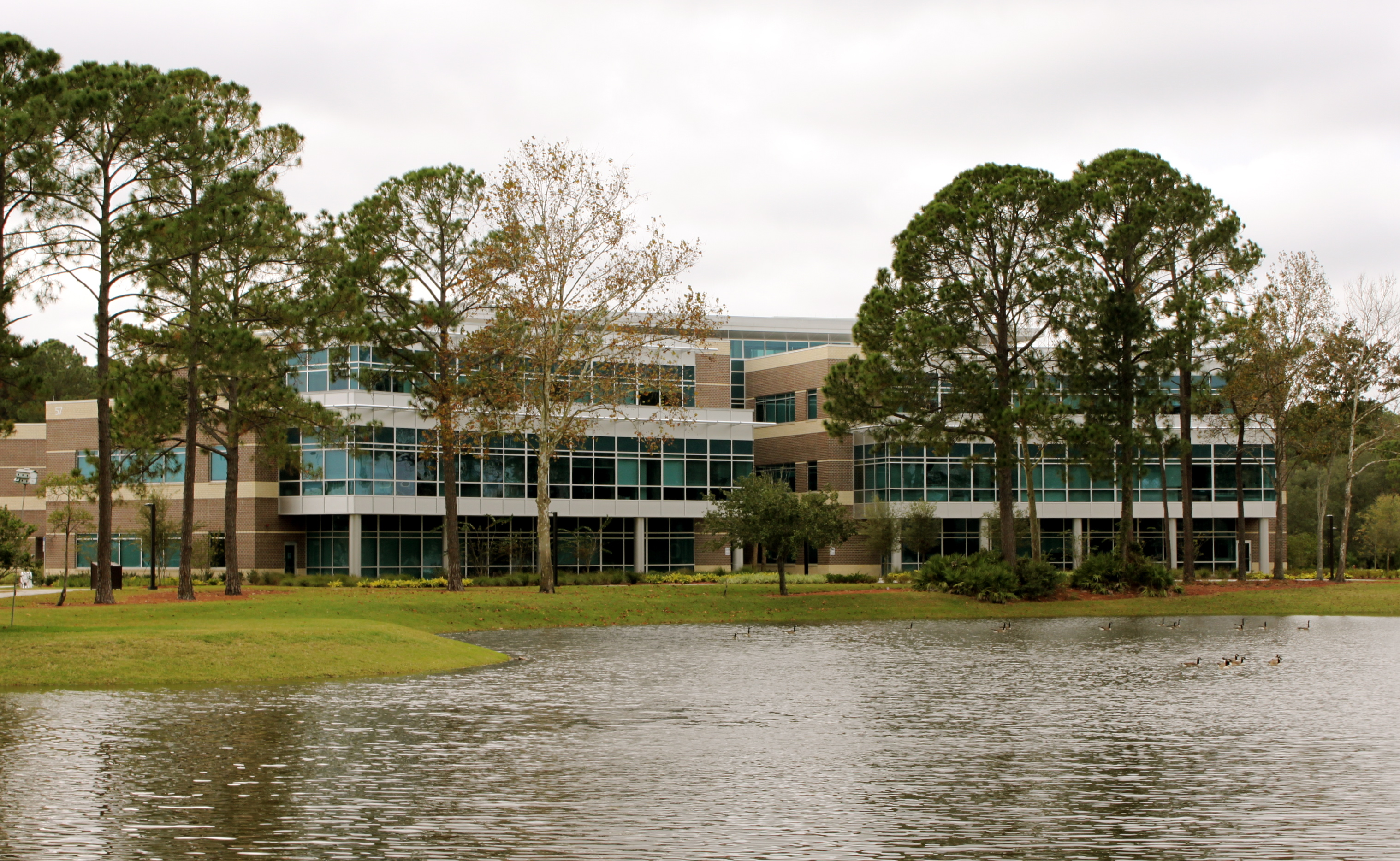 The College of Education building at the University of North Florida.